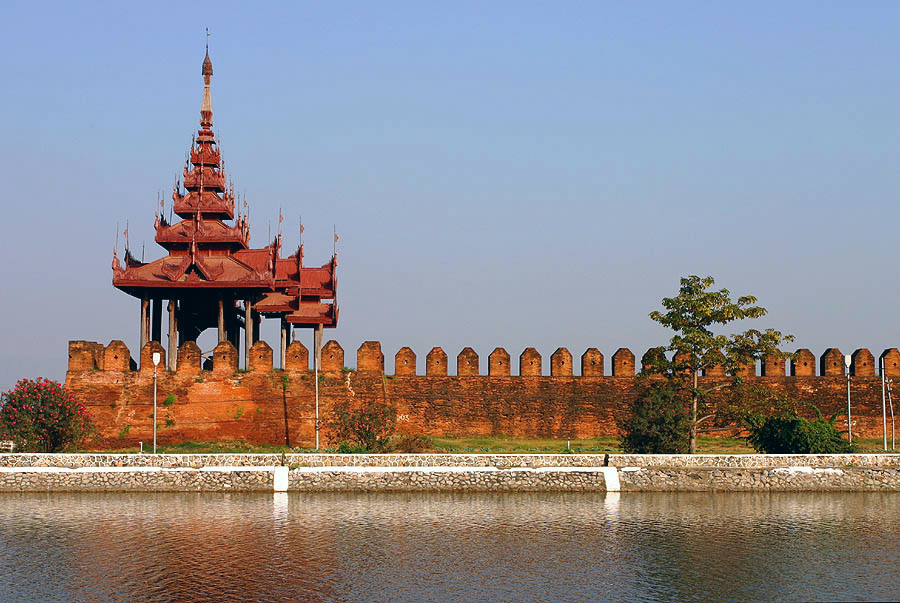 The wall and moat of the Mandalay Fort at the city centre.